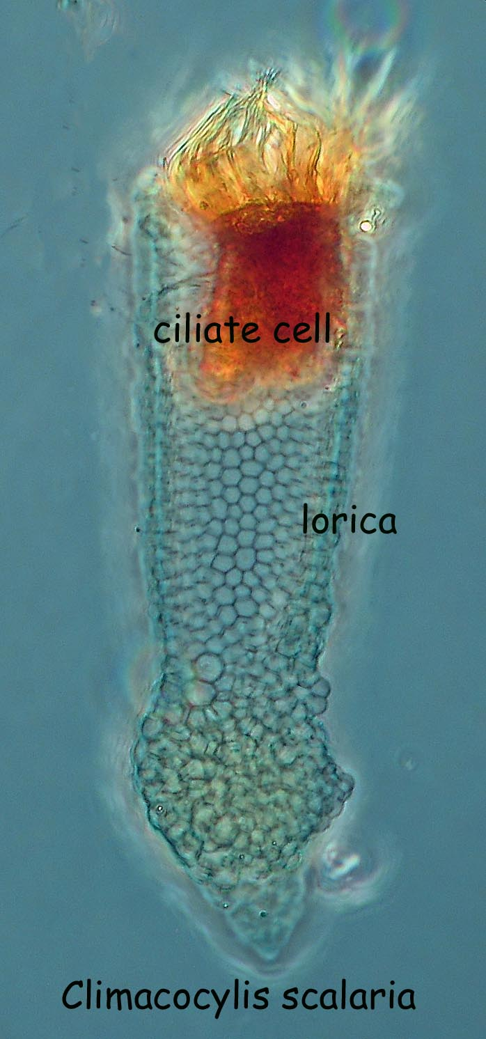 Climacocylis scalaria, a tintinnid ciliate